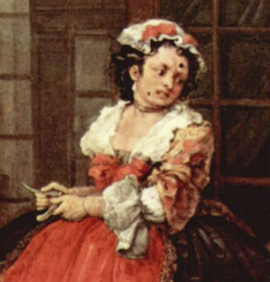 Detail from a painting by Hogarth (Mariage à la Mode: visit with the Quack Doctor)